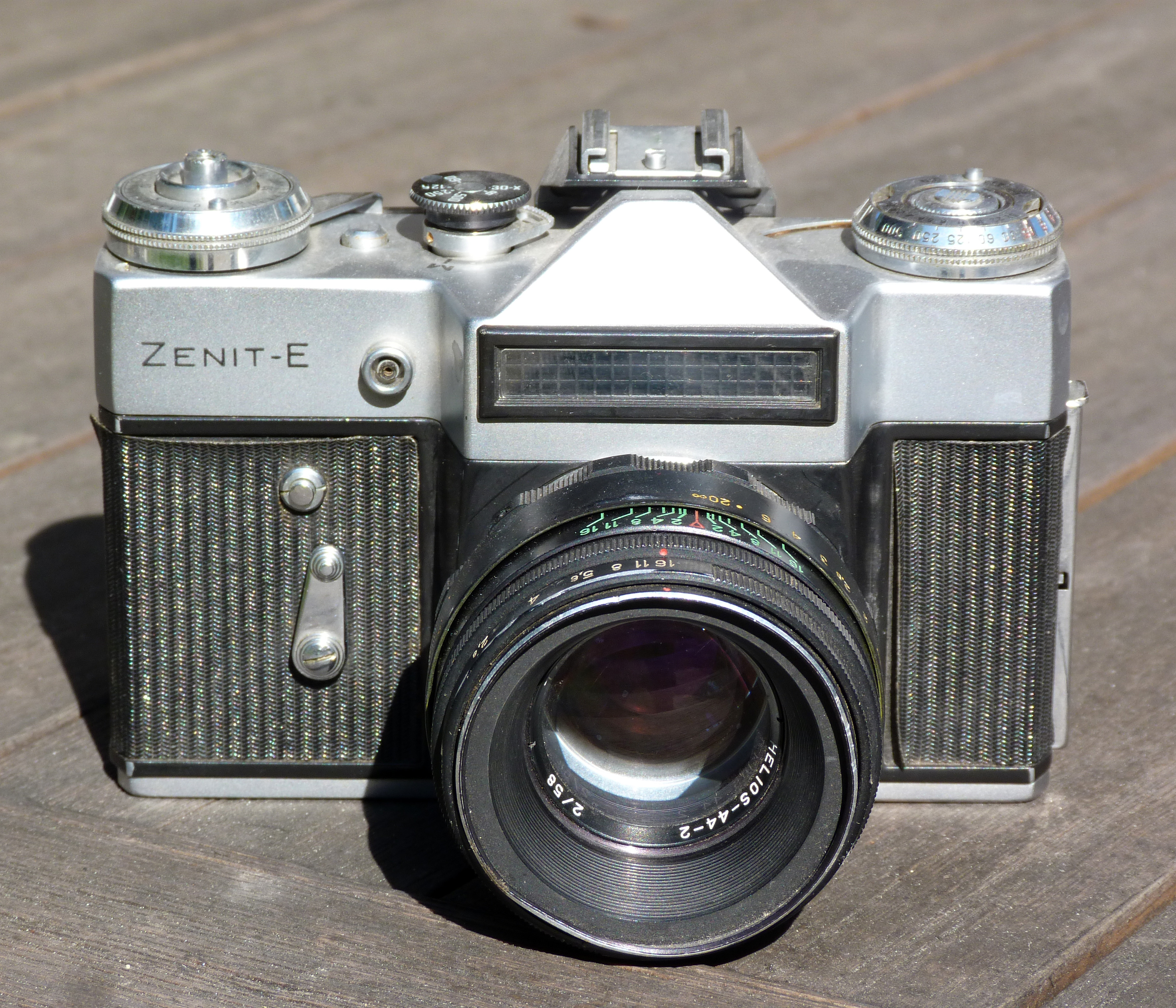 Zenit - E camera with Helios 44-2 - 2/58 - 7425383 lens. Made in USSR, sold in Hungary. Identification number: N 74242680 Owner: Elekes Andor, Budapest